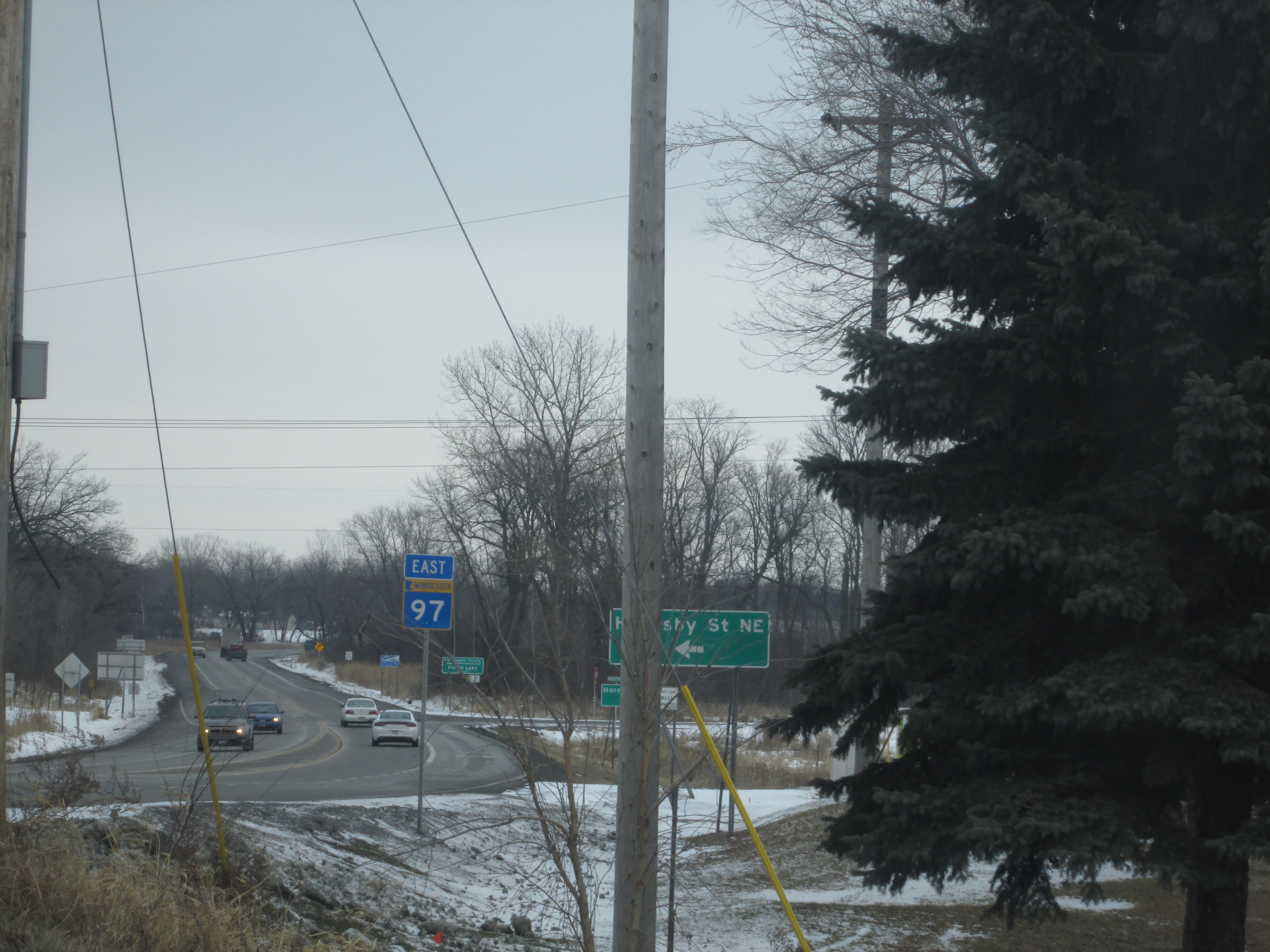 Exit off of I-35 (Exit 129) for MN-97 and Anoka County Road 23 in Columbus, looking east.